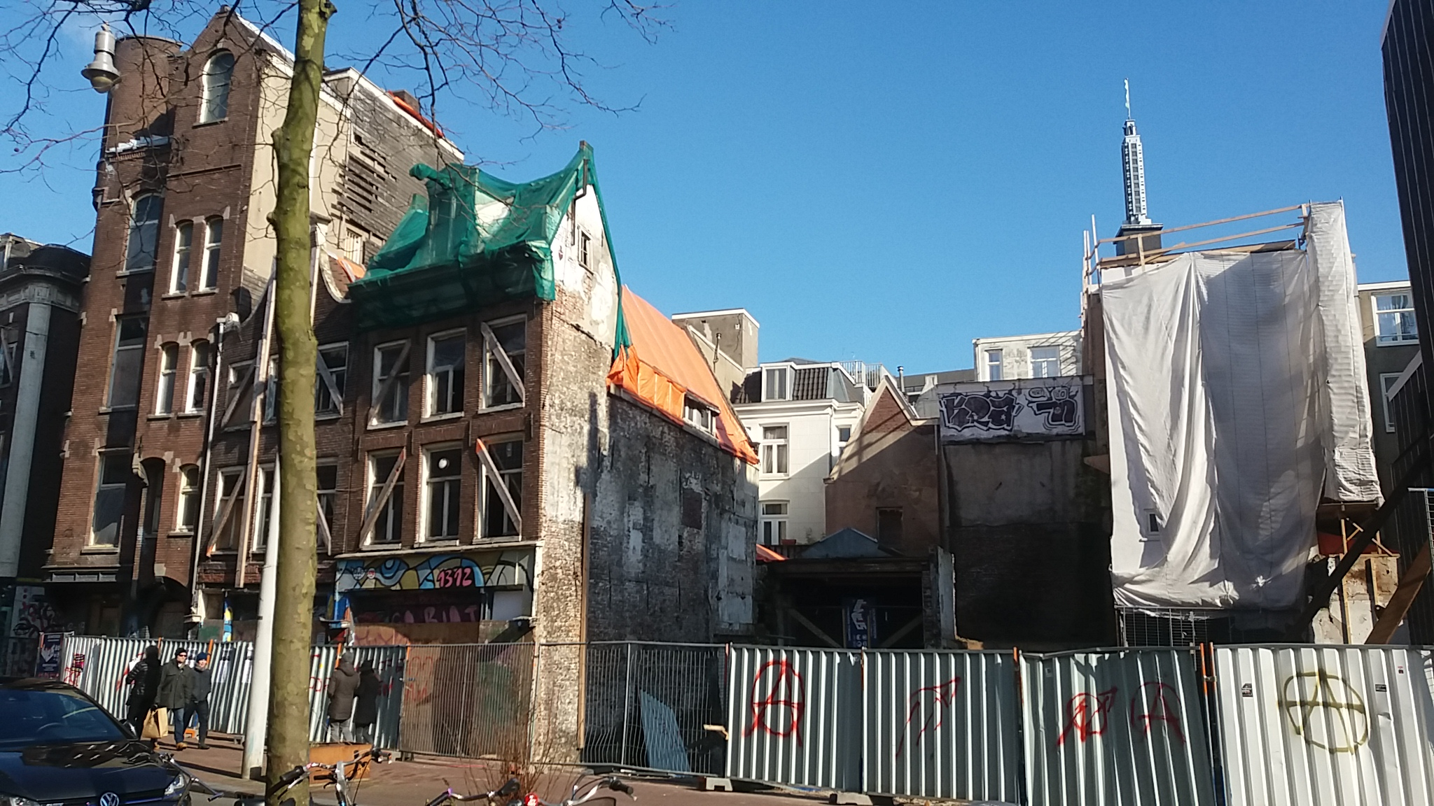 This photo include Spuistraat 223 (obscured by tree) and 225 (roof covered by green net). These buildings are national monuments.